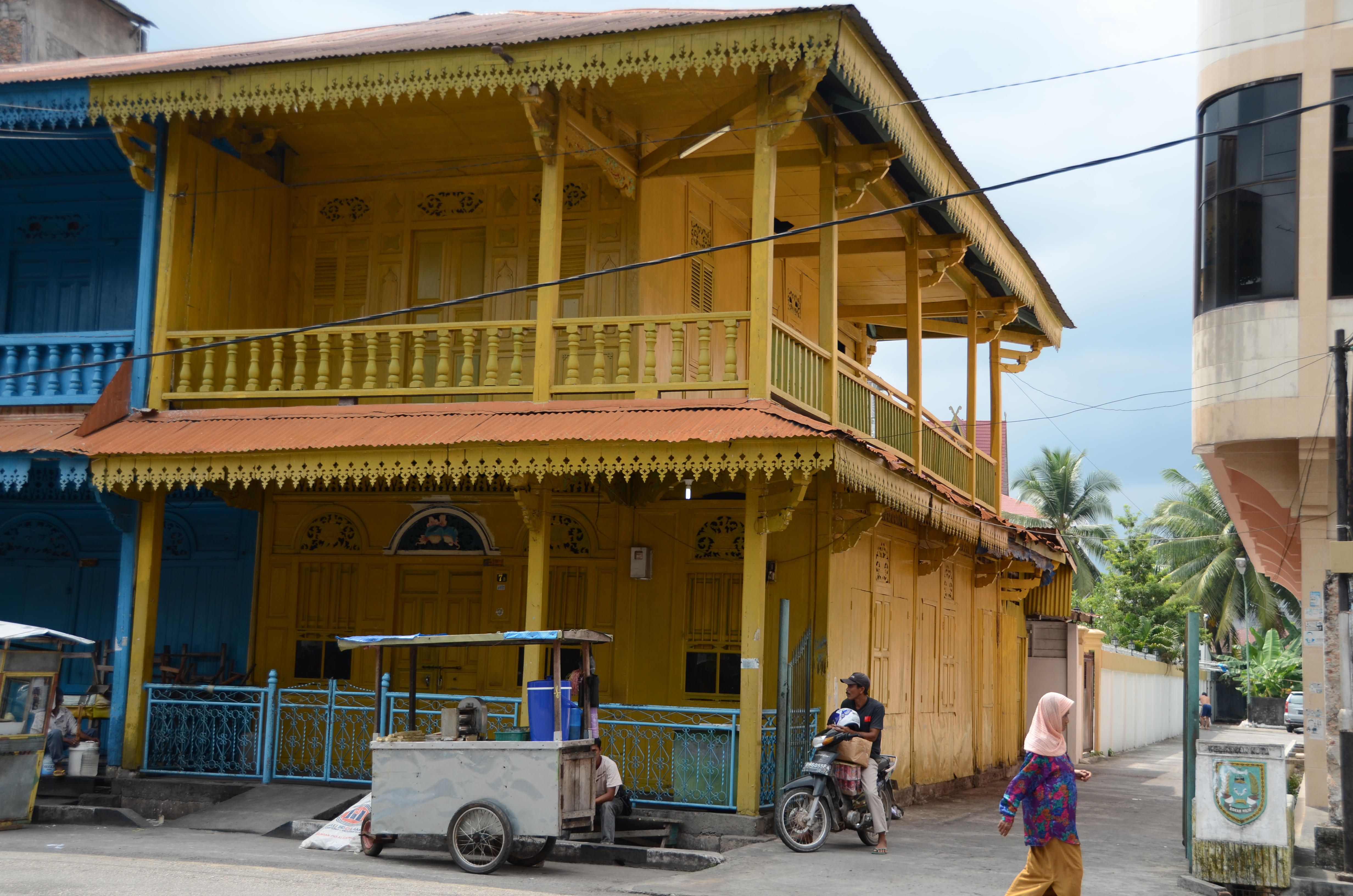 Traditional House